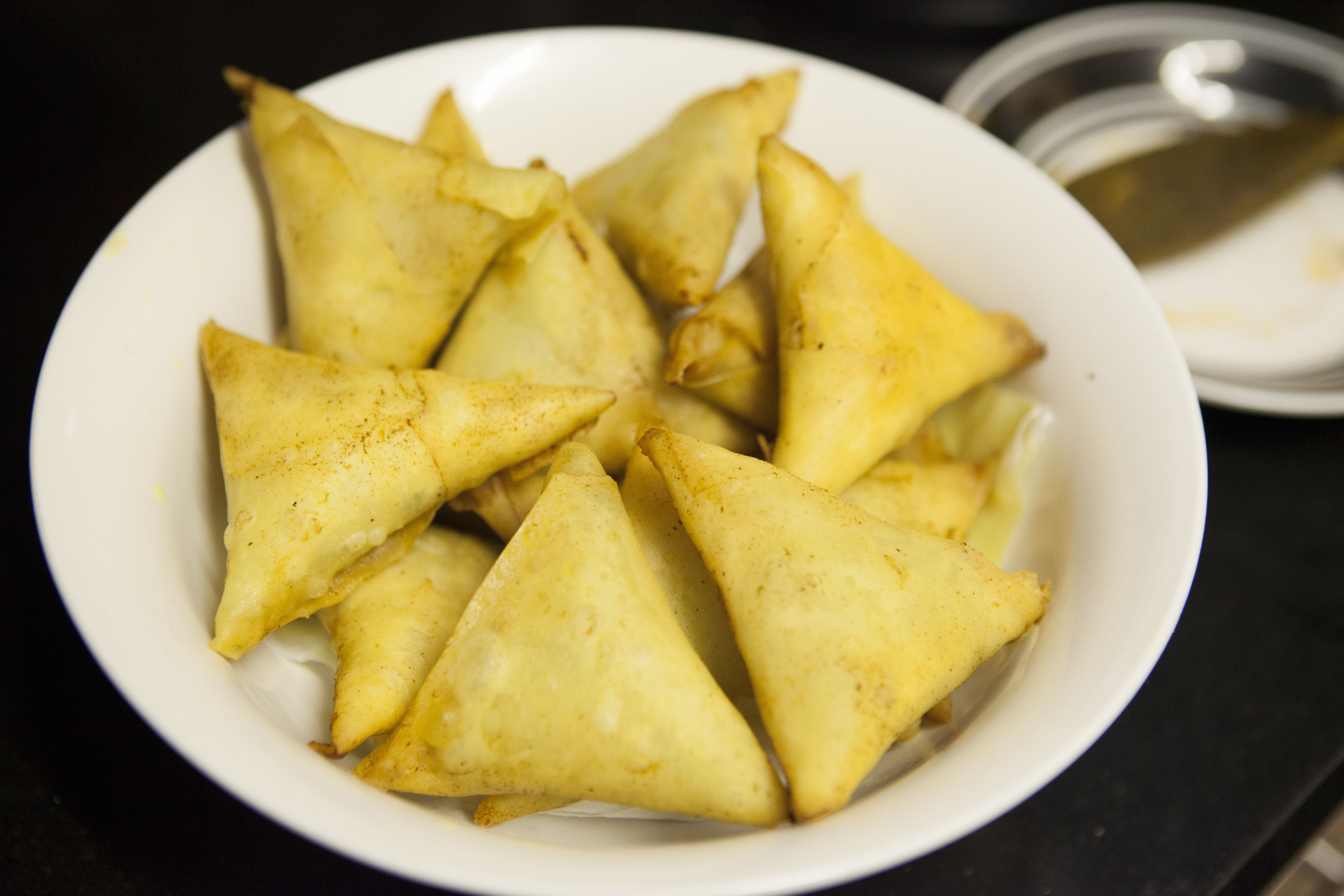 Samosas are a traditional Cape Malay snack enjoyed in Africa. They are pillows of beef, potato, chicken or chickpeas, wrapped in pastry and deep fried. This is an image of food from South Africa